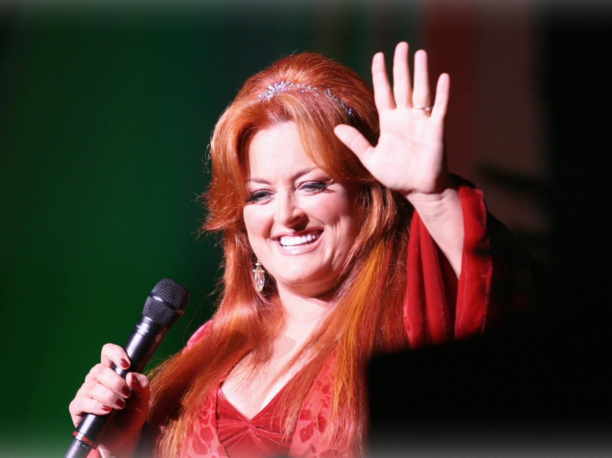 Wynonna is welcomed with warm applause as she arrives on stage for A Christmas Classic tour.